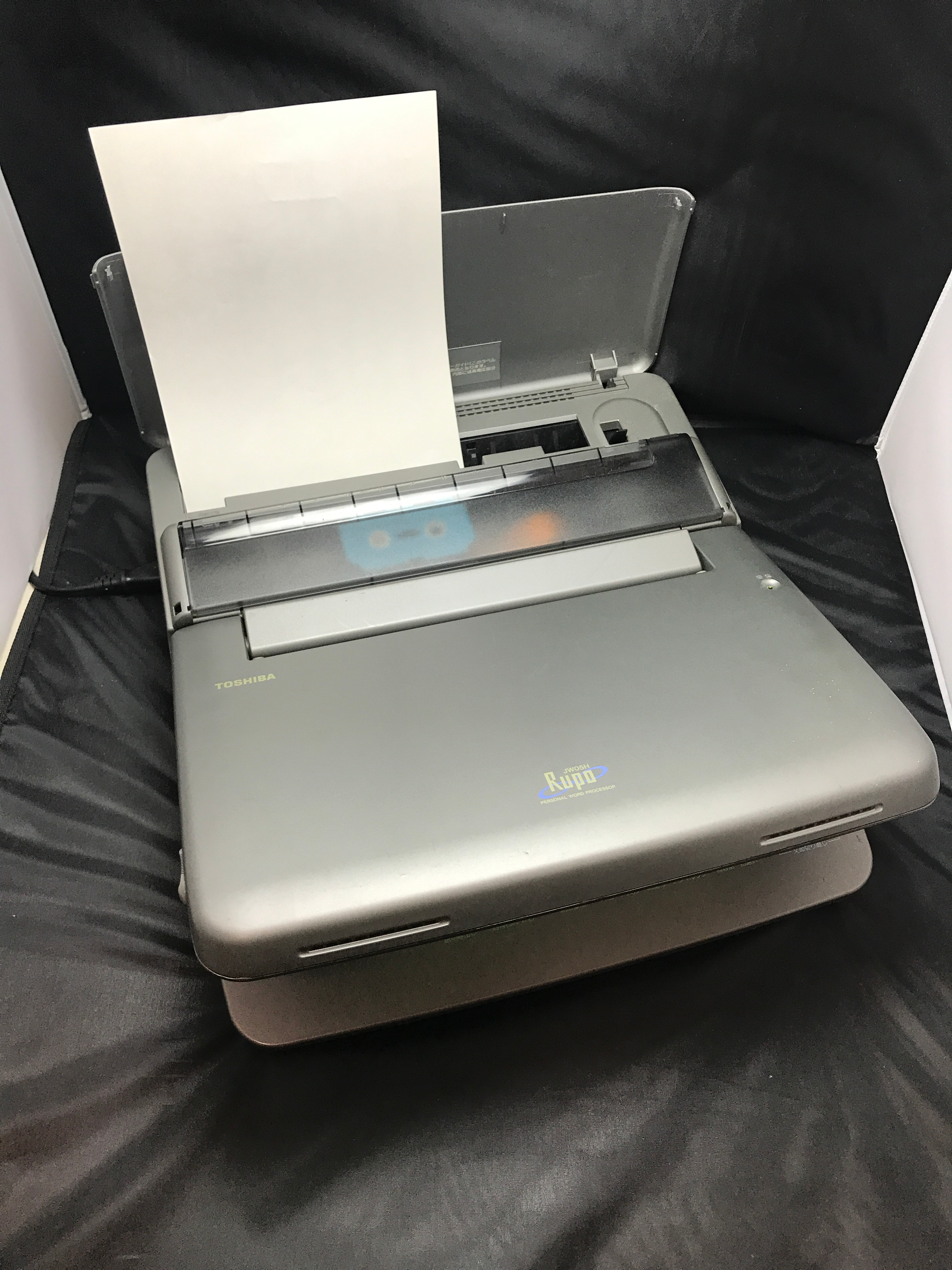 Japanese word processer "Toshiba Rupo JW05H" at upside.